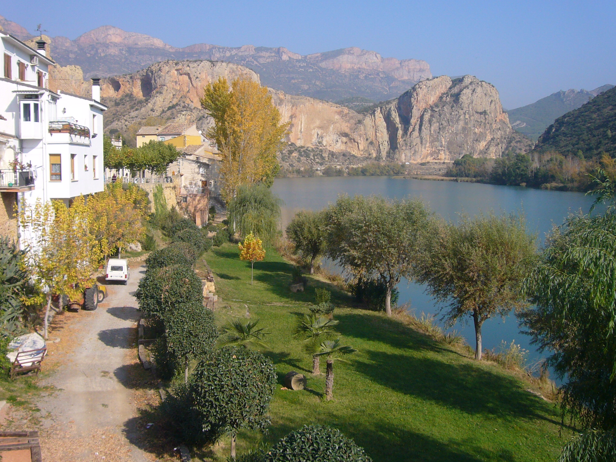 Sant Llorenç de Montgai